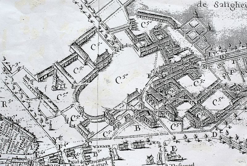 Detail of the plan by the architect Laurent-Benoît Dewez for the reconstruction of parts of the Abbaye of Forest (ca. 1765).